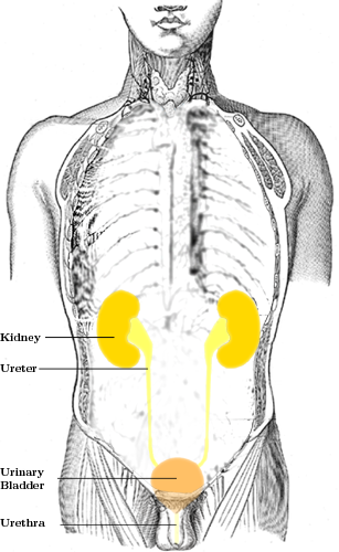 Position of organs of the urinary tract (Kidney, Ureter, Urinary bladder, Urethra